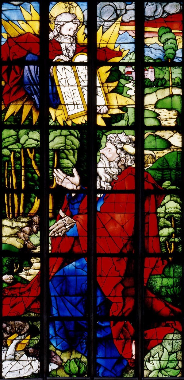 Moses receiving the ten commandments, stained glass panel, Jakobskirche, Straubing